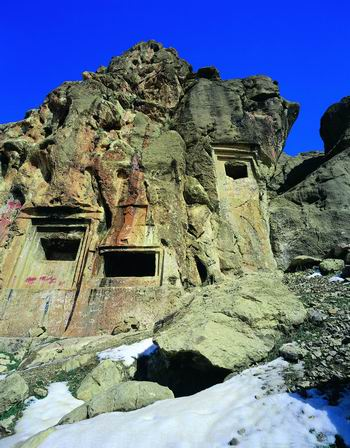 Take by Ali Matin, the picture is a property of CHHTO of Kermanshah. Herebye, the manager of the Organization allows it tobe used according to the following